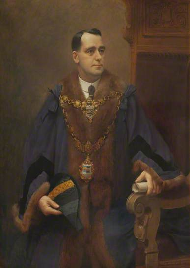 A Lindsay Parkinson by Ernest Townsend 1918 Blackpool Town Hall; Supplied by The Public Catalogue Foundation